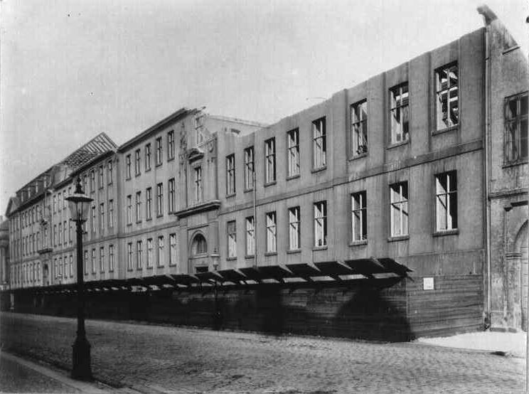 Almindelig Hospital, hospital in Amaliegade, Copenhagen. Est. 1769, merged into De Gamles By 1919.